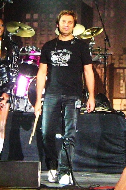 Roger Taylor - an English drummer of Duran Duran.